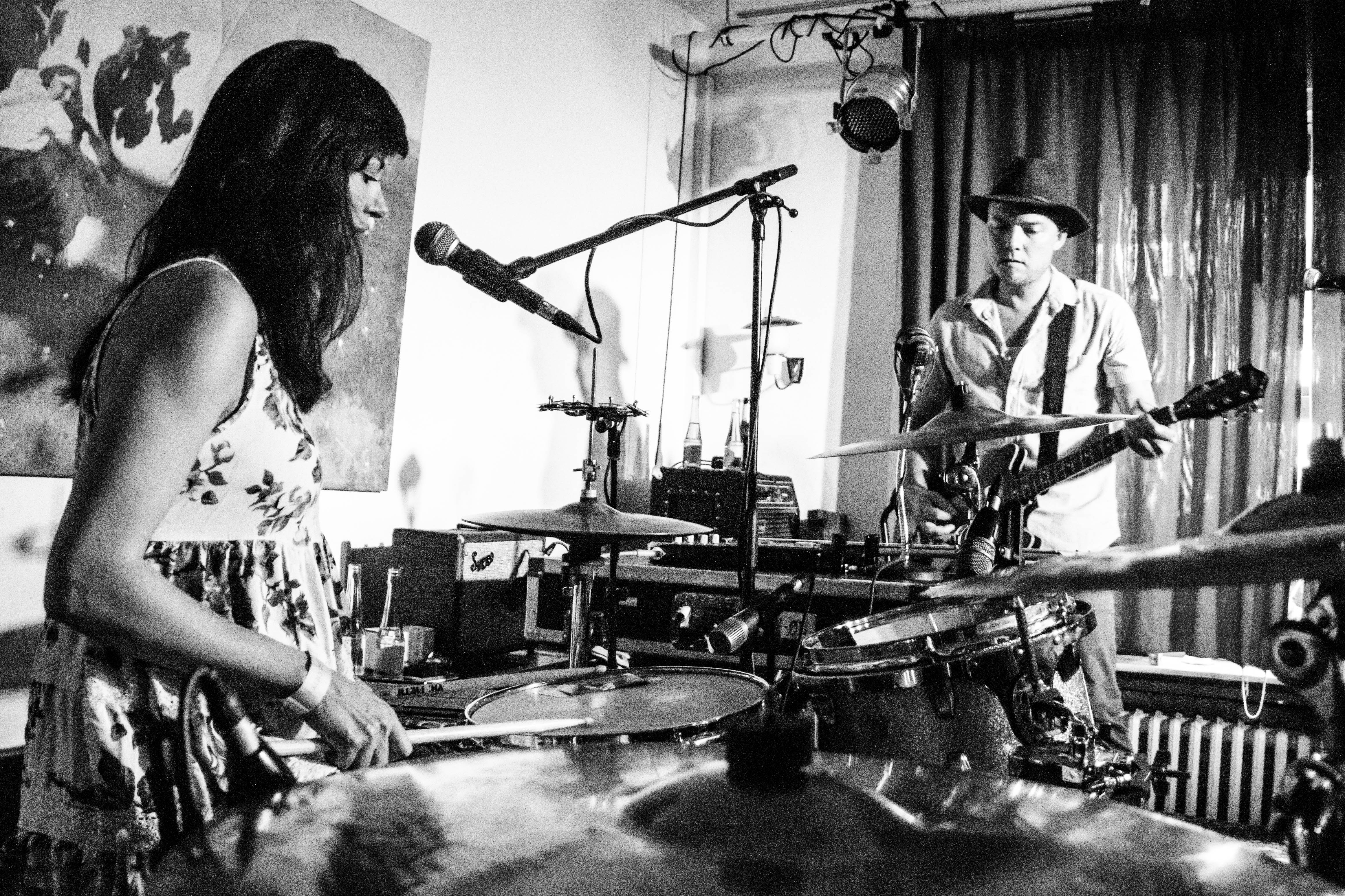 Little Hurricane at Haldern Pop Festival 2017